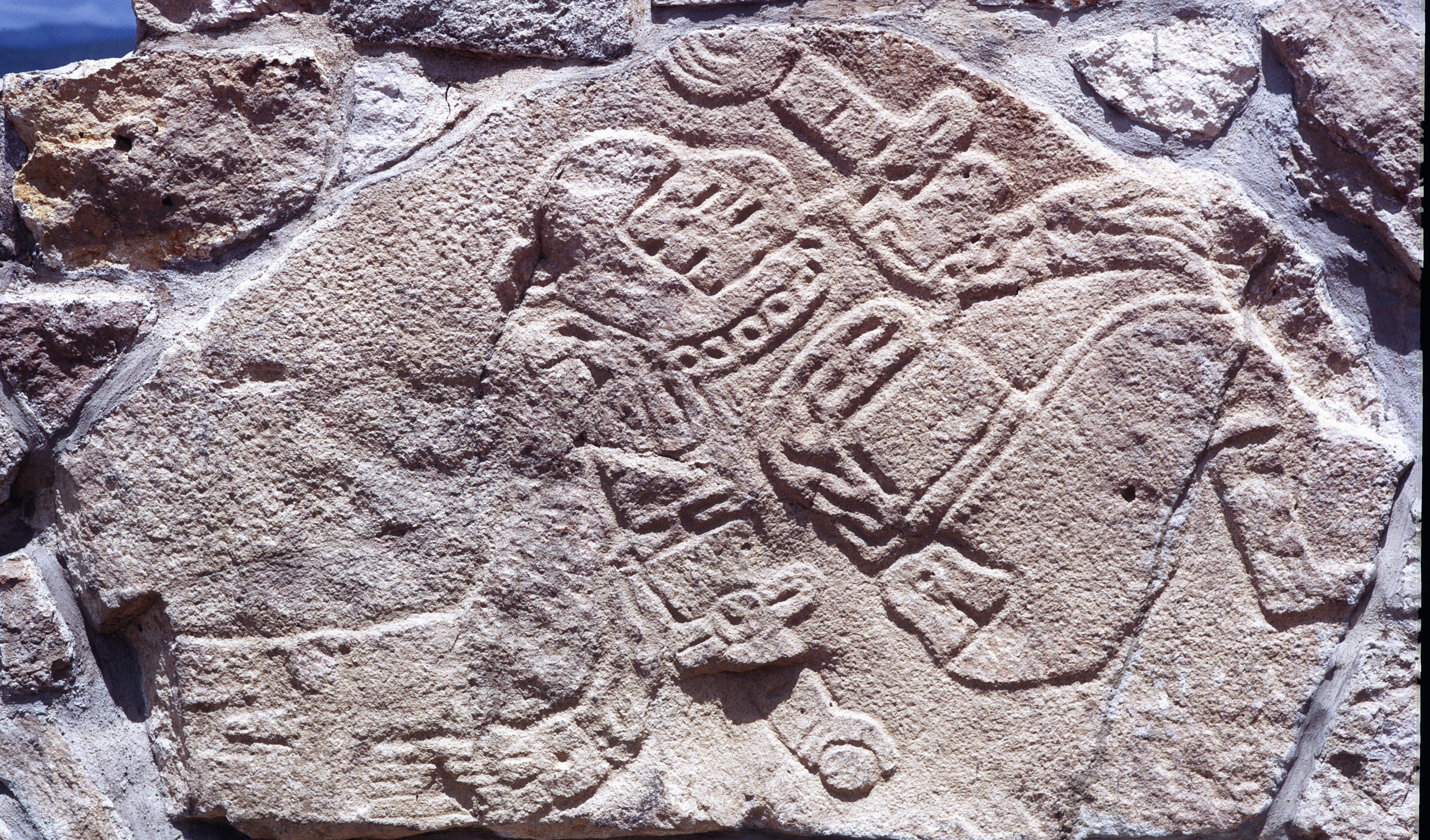 Conjunto A, ball player